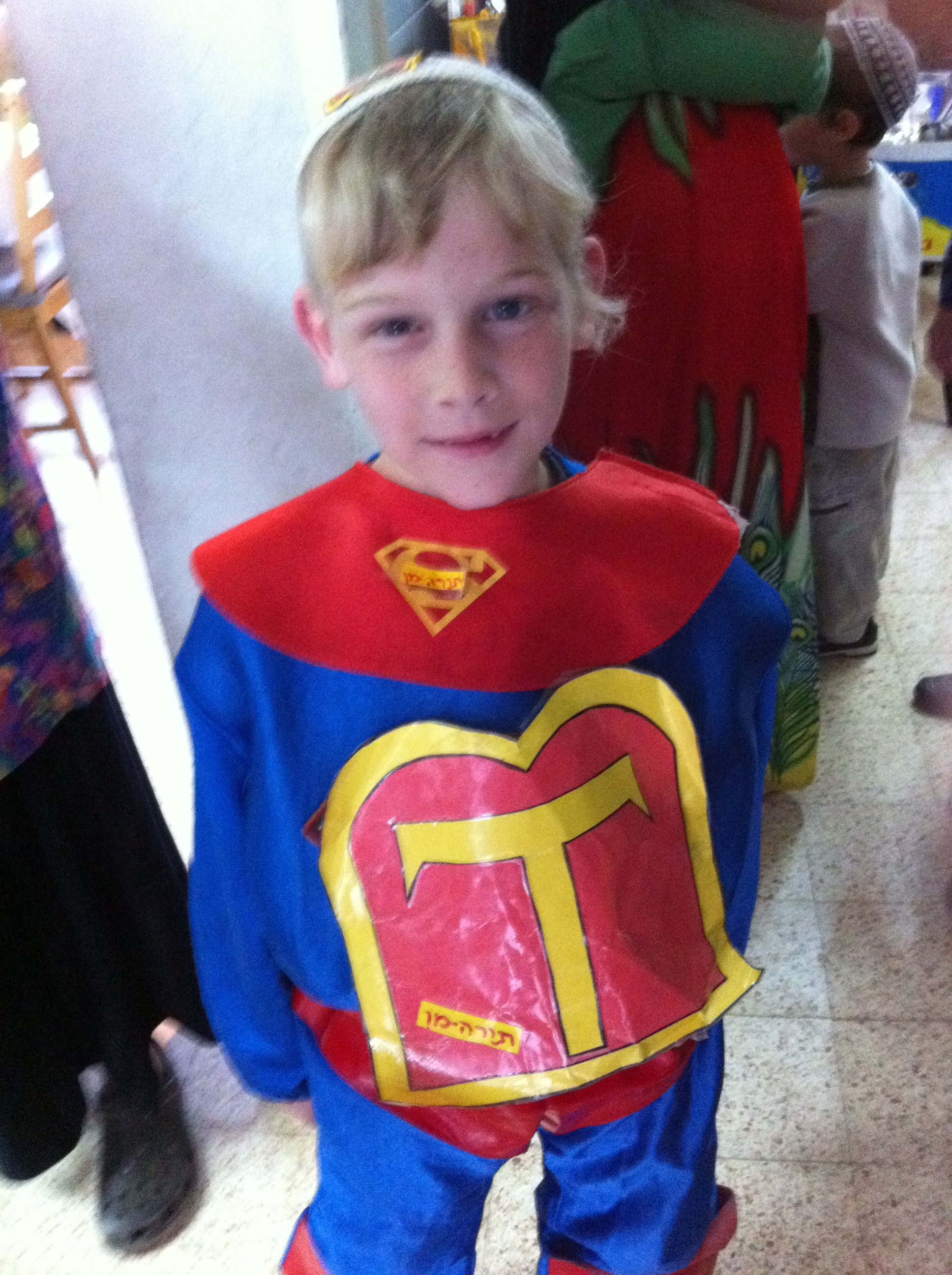 A child dressed as Tora-Man.